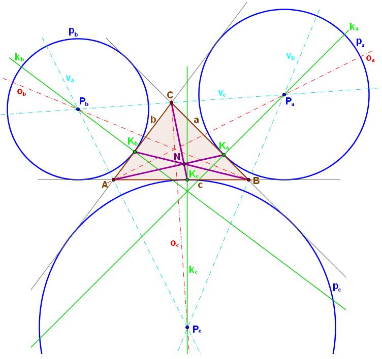 Excircles and Nagel point ΔABC a, b, c – sides oa, ob, oc – angle bisectors va, vb, vc – adjacent angle bisectors Pa, Pb, Pc – intersections of angle bisectors and adjacent angle bisectors, excircles centers pa, pb, pc – excircles ka, kb, kc – perpendiculars to sides, including excircles centers Ka, Kb, Kc– tangent points AKa, BKb, CKc - lines throuht vertices and tangent points N – intersection of lines, Nagel point